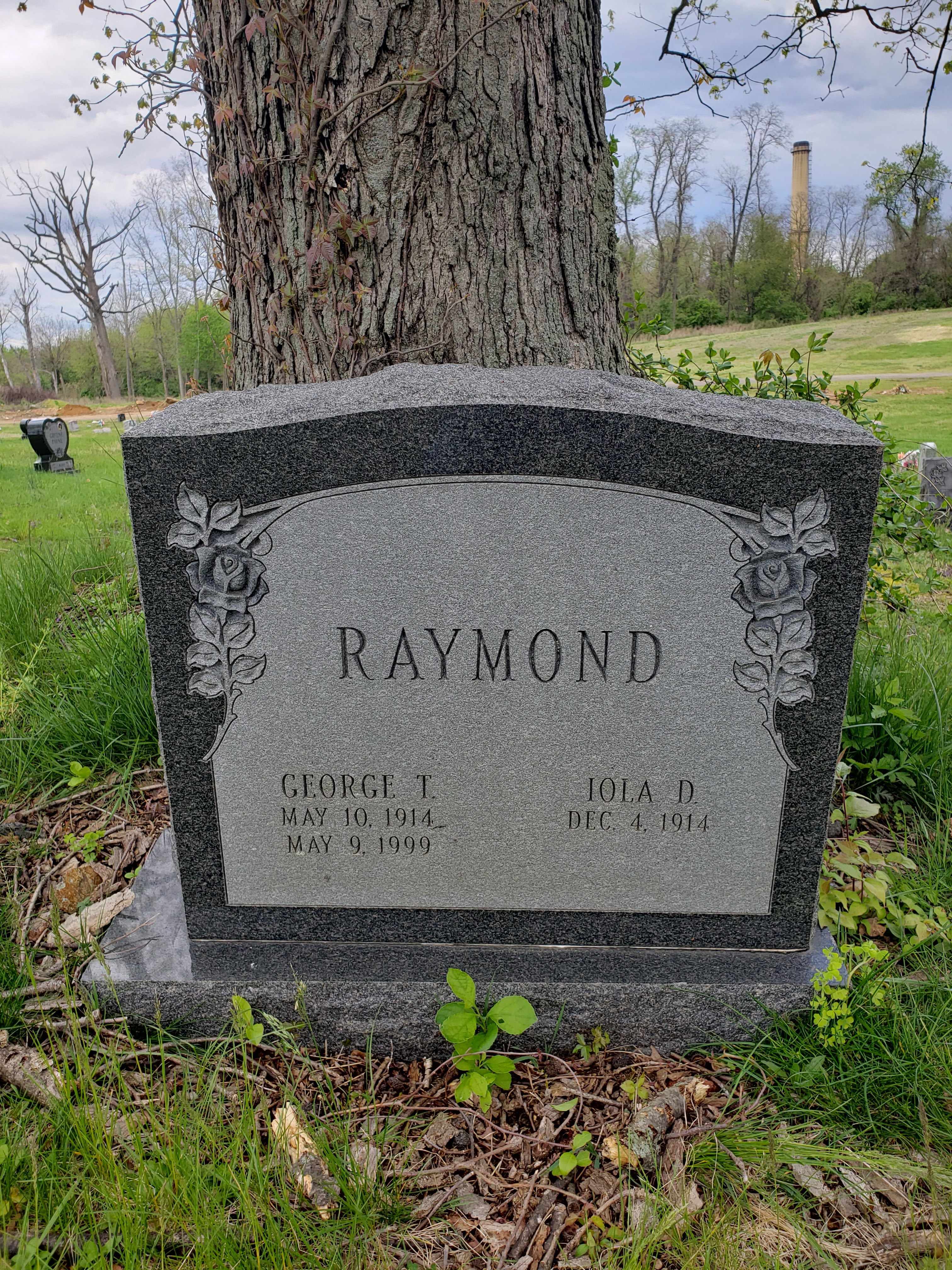 George Raymond gravestone in Haven Memorial Cemetery in Chester, Pennsylvania. Photo taken May 2020.